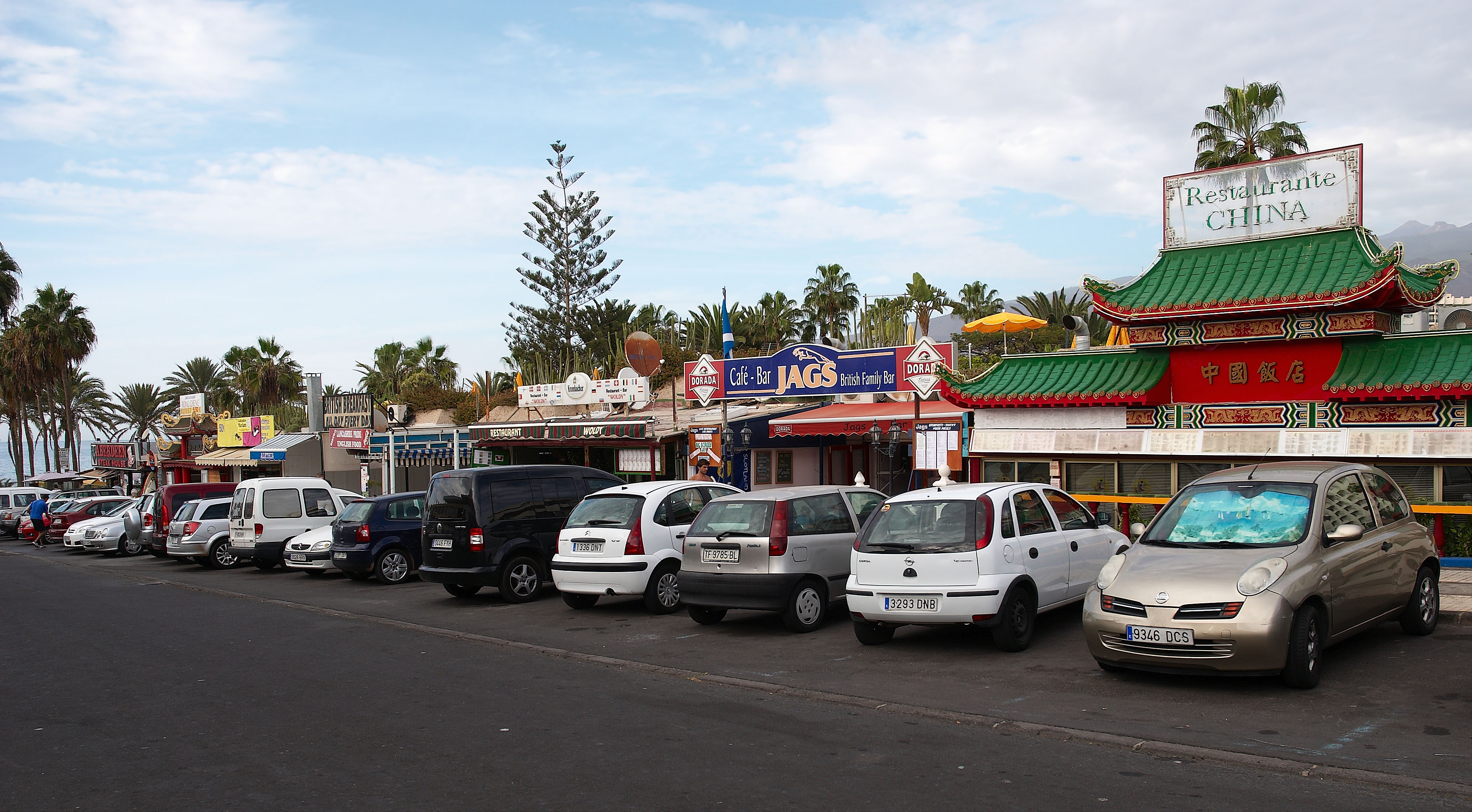 Small restaurants in the Calle Mexico near the beach of Playa de las Américas